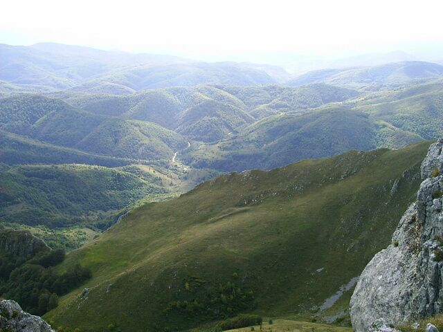 Jahorina (southern part) mountain range in Bosnia-Herzegovina